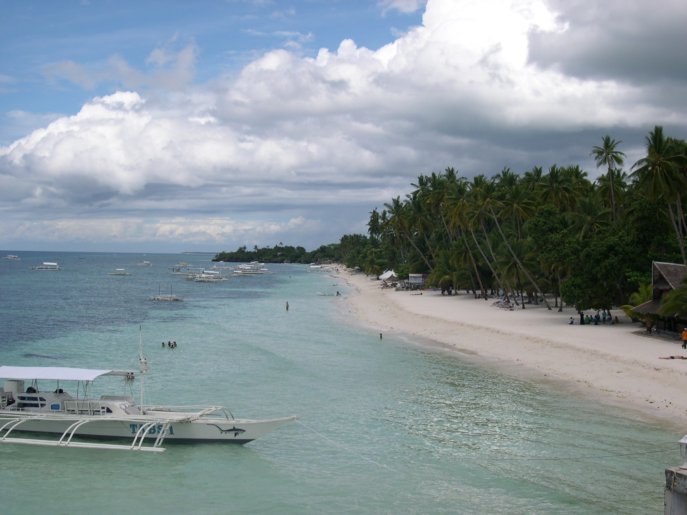 An overview of the Alona beach on Panglao Island, just south of Bohol in central Philippines picture taken by Magalhães on 25th of March 2006